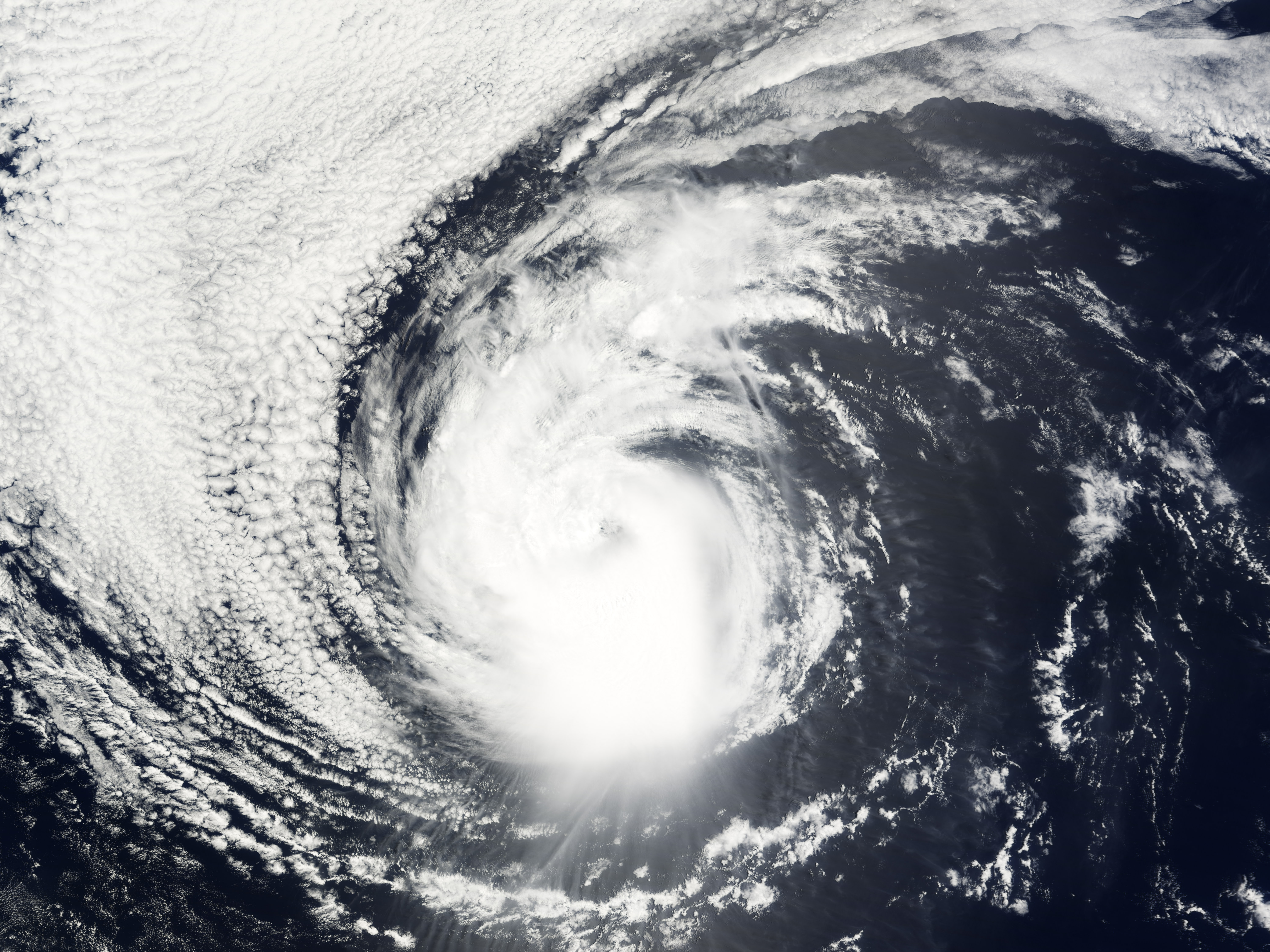 Hurricane Elida (2008) as seem from Terra Satellite on 2008-07-17